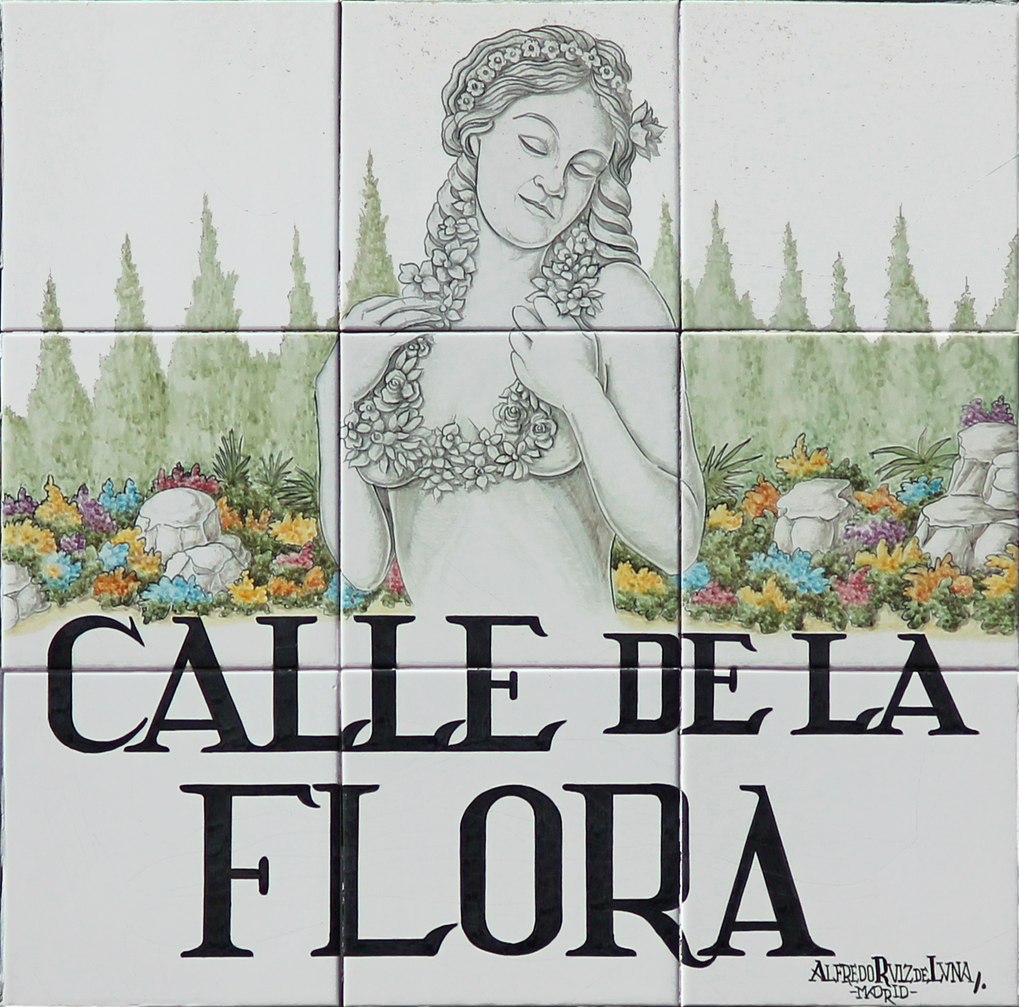 Sign of Calle de la Flora (street) in Madrid (Spain).